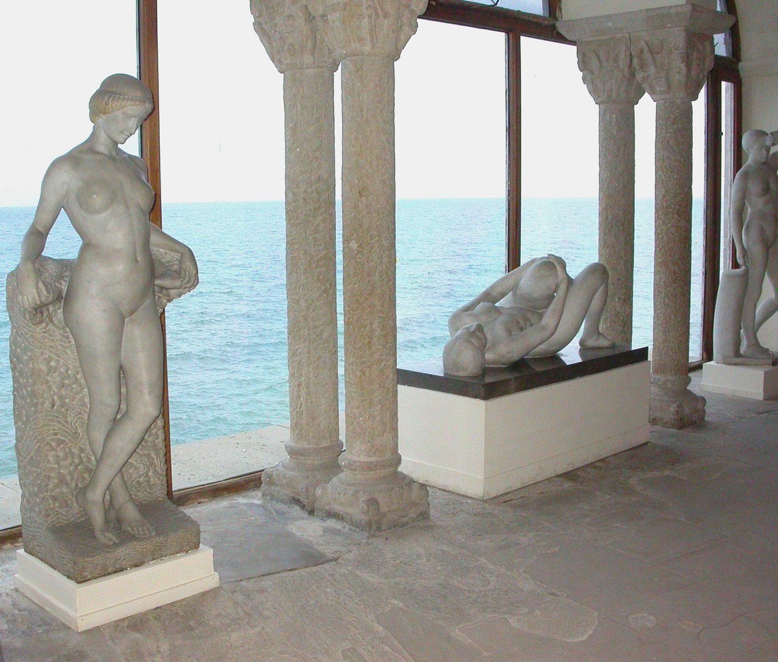 Mirador d'escultures del Museu Maricel